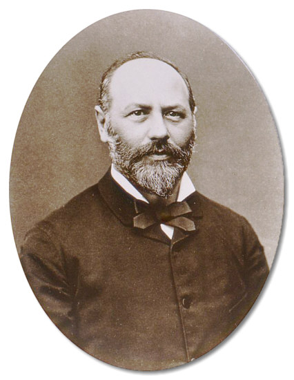 Mór Kaposi Hungarian physician and dermatologist who discovered the skin tumor that received his name (Kaposi's sarcoma)